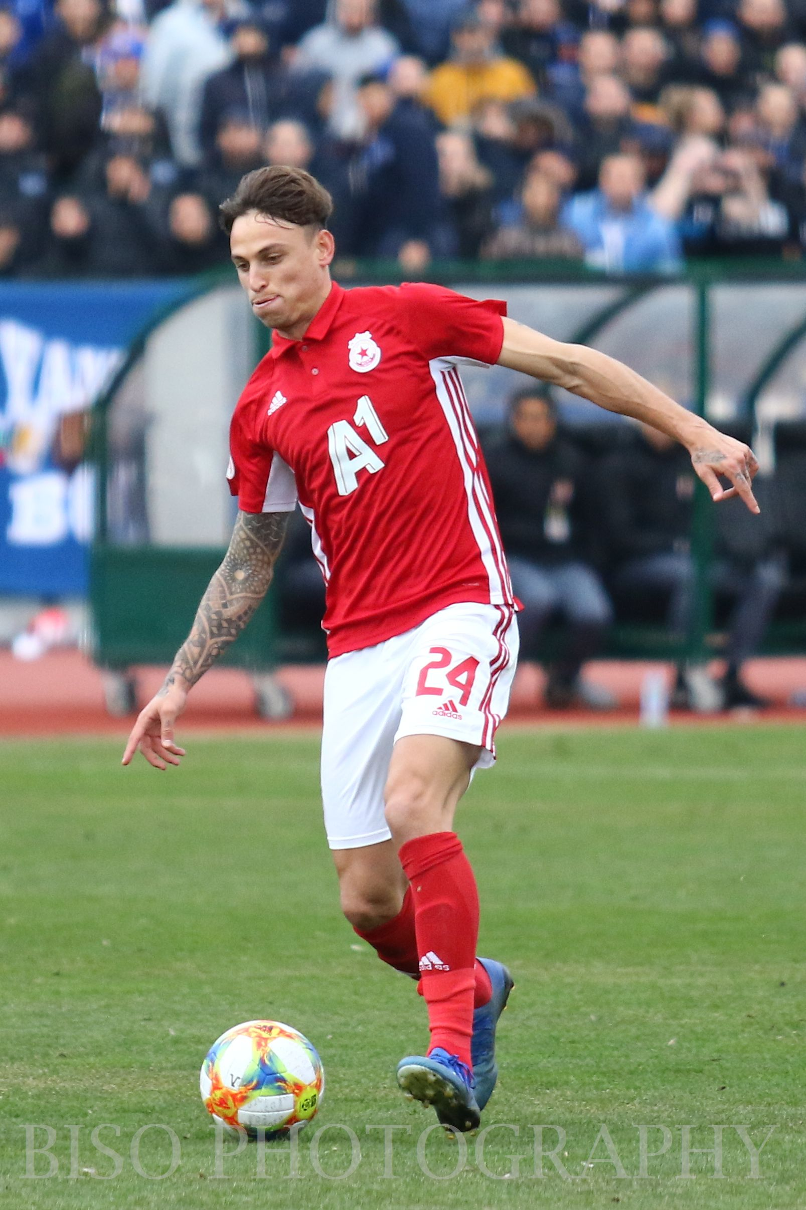 Stefano "Teto" Beltrame (born 8 February 1993)- Italian professional footballer who plays as an attacking midfielder for Bulgarian club CSKA Sofia.